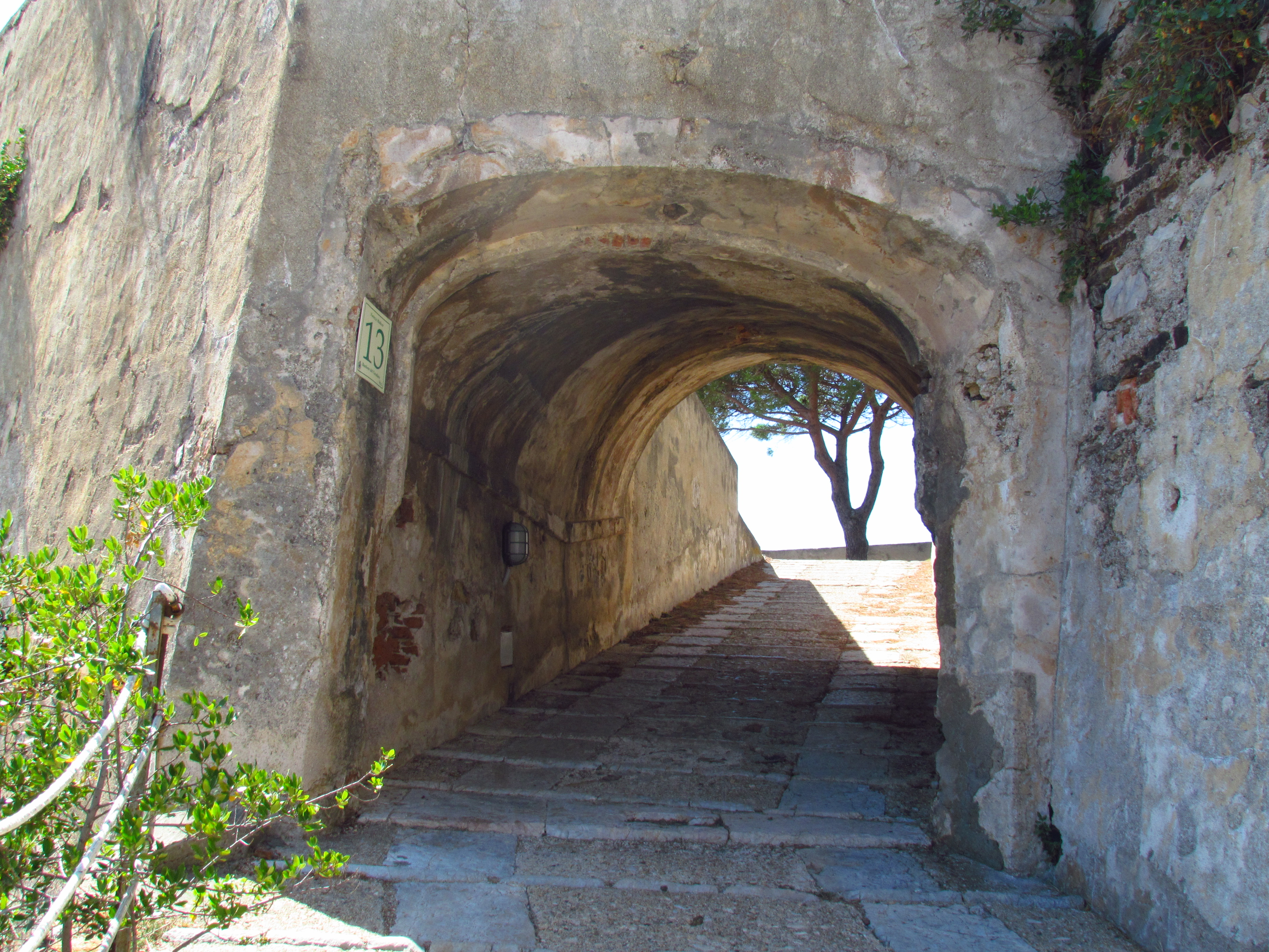 All'interno della Fortezza: Arco che porta alla pineta interna